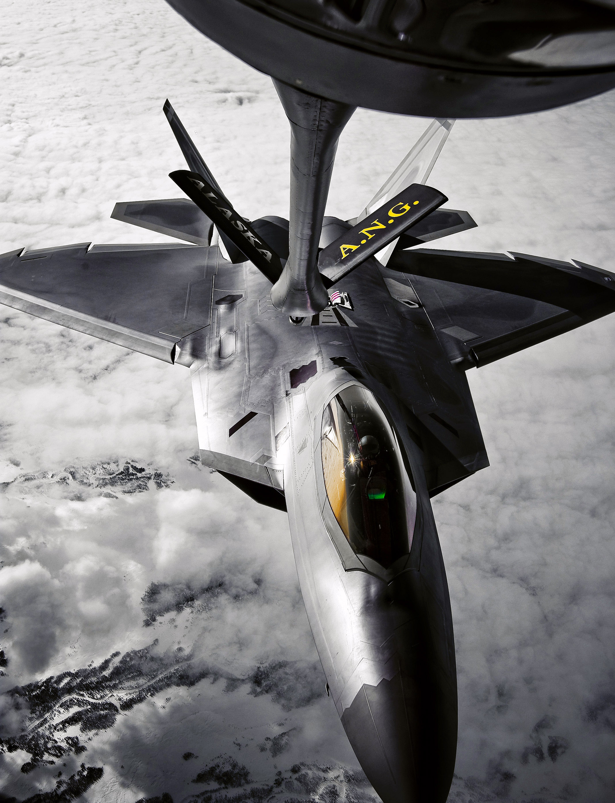 F-22 Raptor after beeing refueled by an A KC-135 Stratotanker.